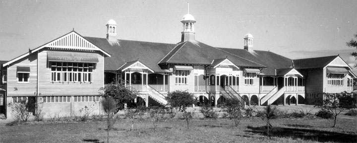 Gympie State High School, additions and remodelling.